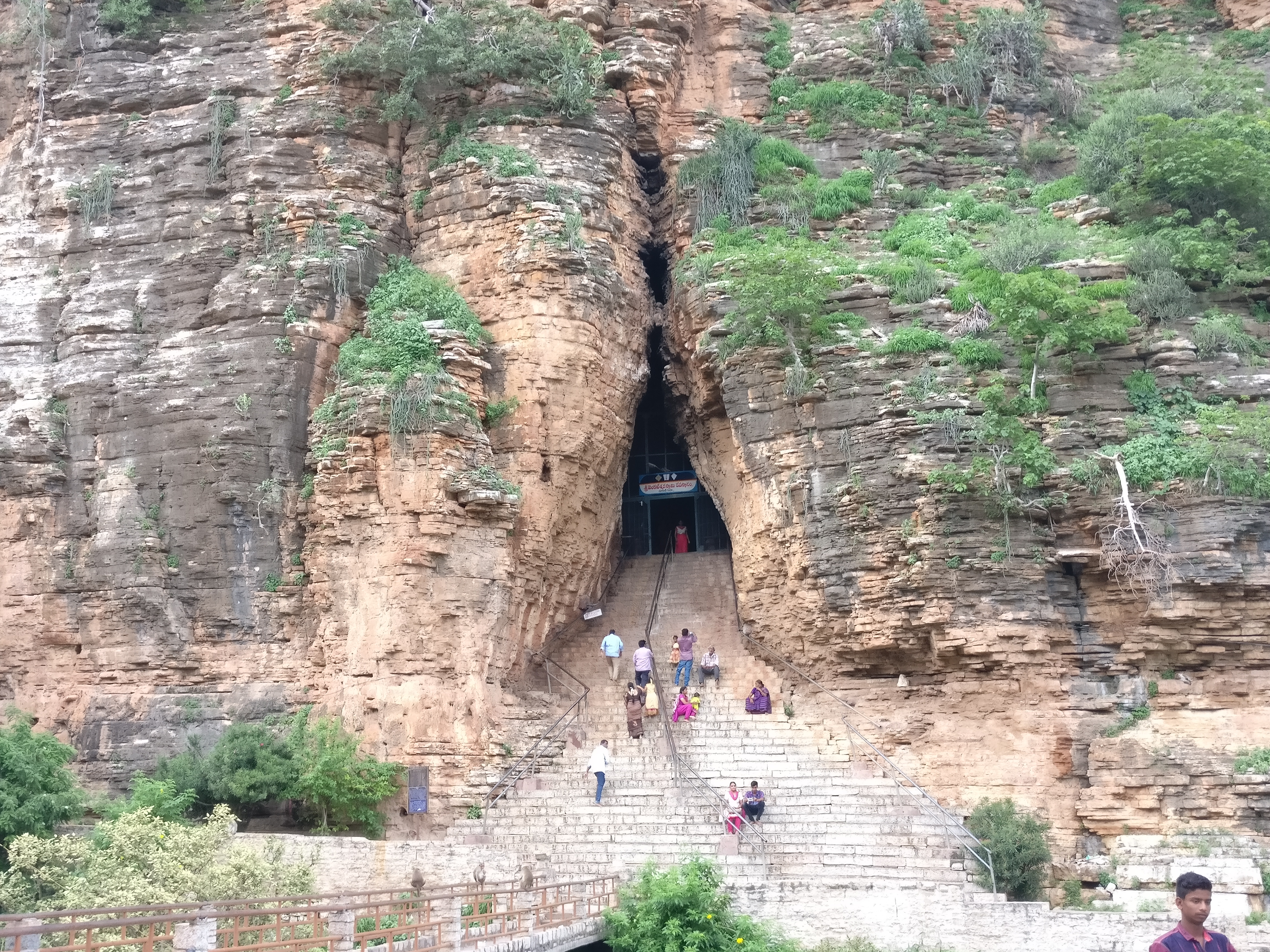 Template:Old Cave Temple